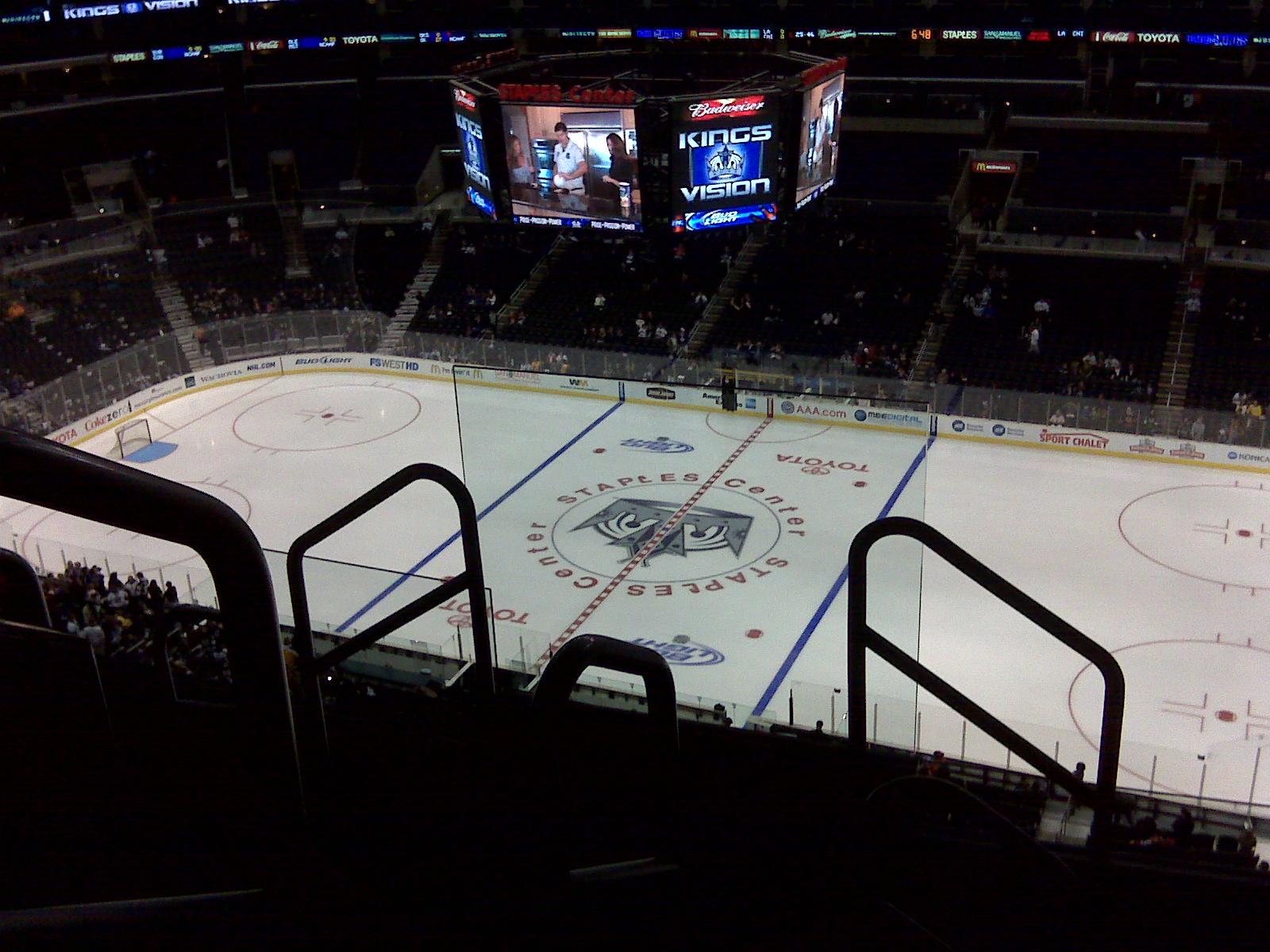 Kings Game @ the Staples Center